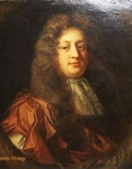 Painting of Thomas Otway, by painter John Riley. Painted c. 1680–85. Held at the University of London. (Source: ODNB)